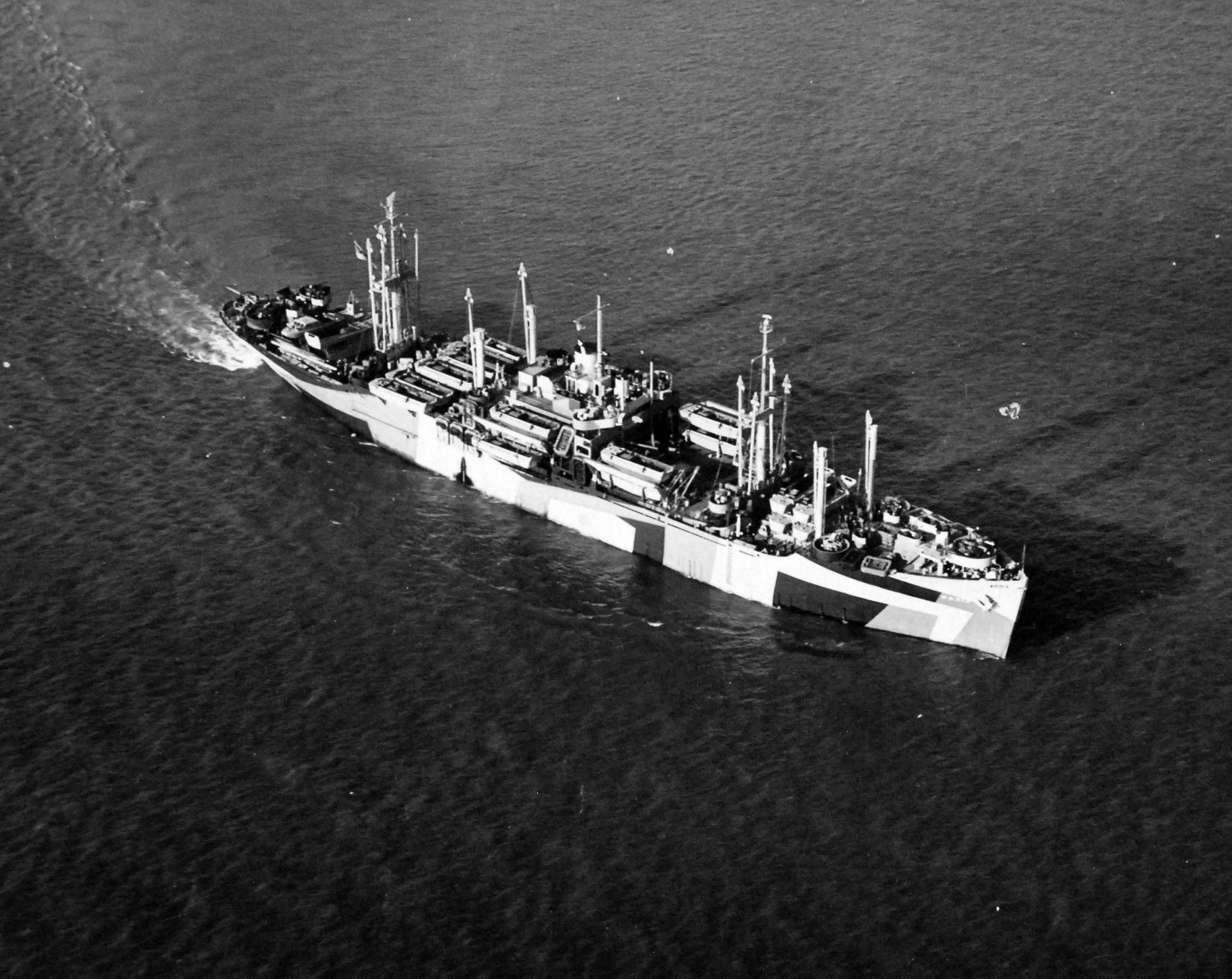 Starboard aerial bow view of USS Mountrail (APA-213) under way off the coast of California, 5 December 1944. US navy photo 80-G-289784 photographed by Naval Air Station Alameda, California, aircraft, now in the collections of the US National Archives.